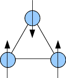 Three Ising spins on a triangle for illustrating frustration